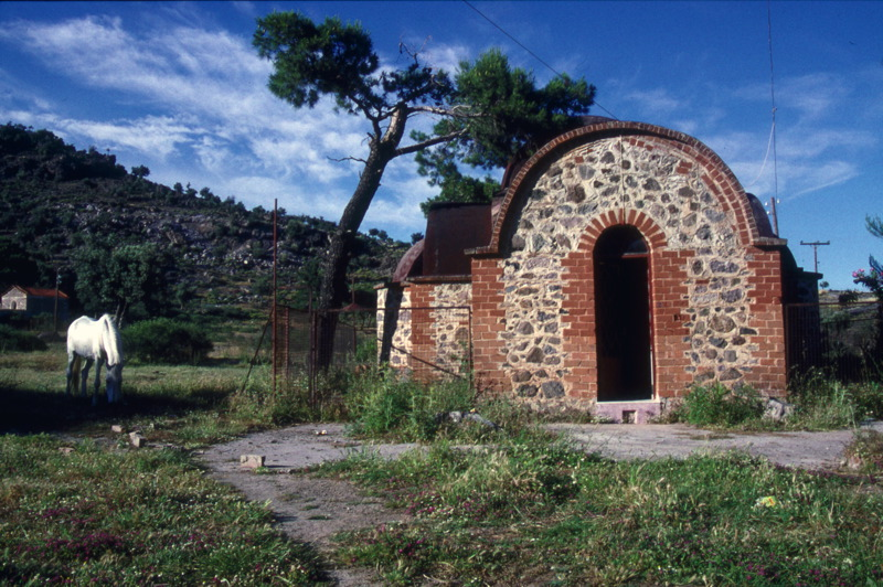 Greece